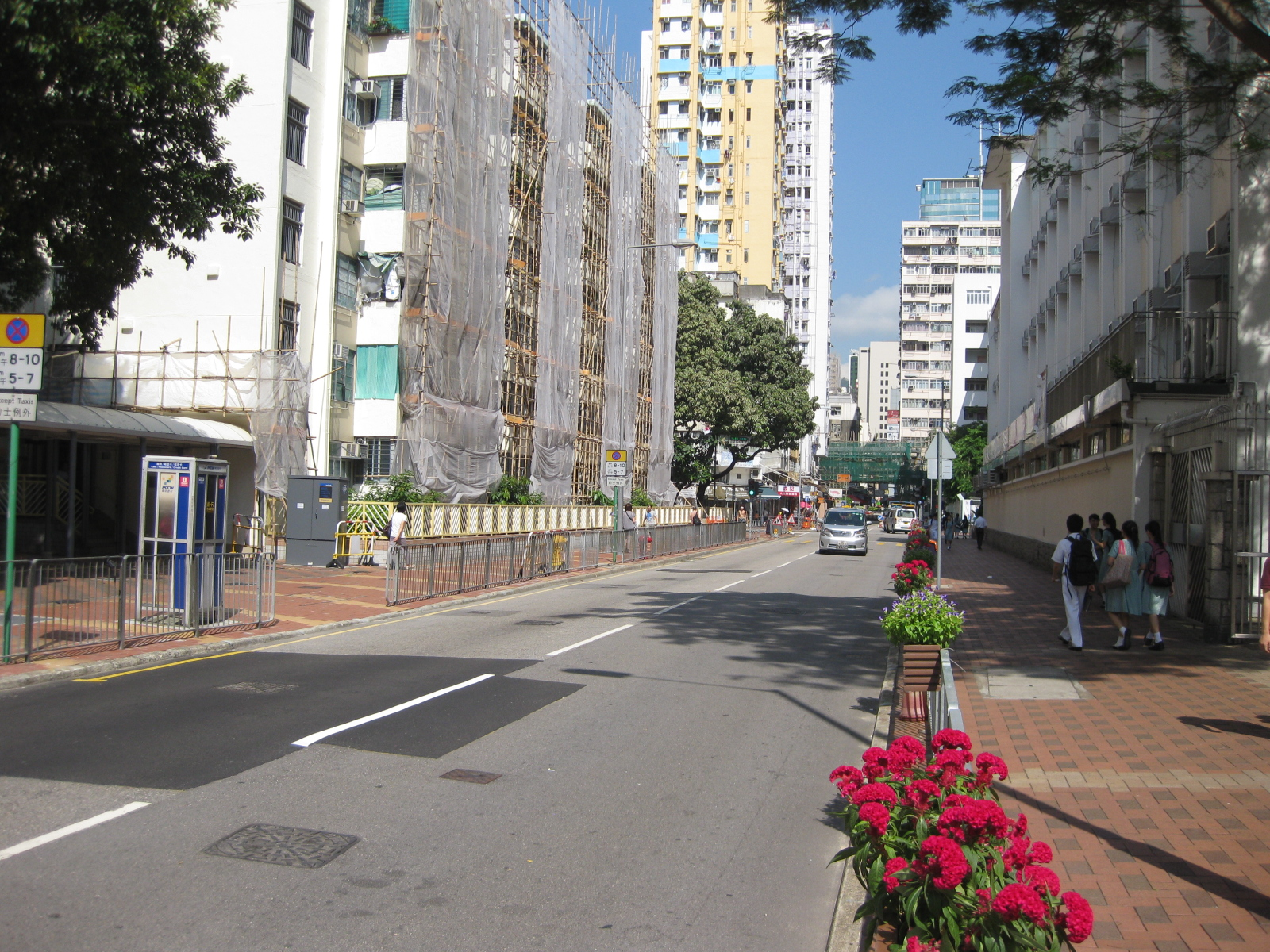 Hoi Pa Street